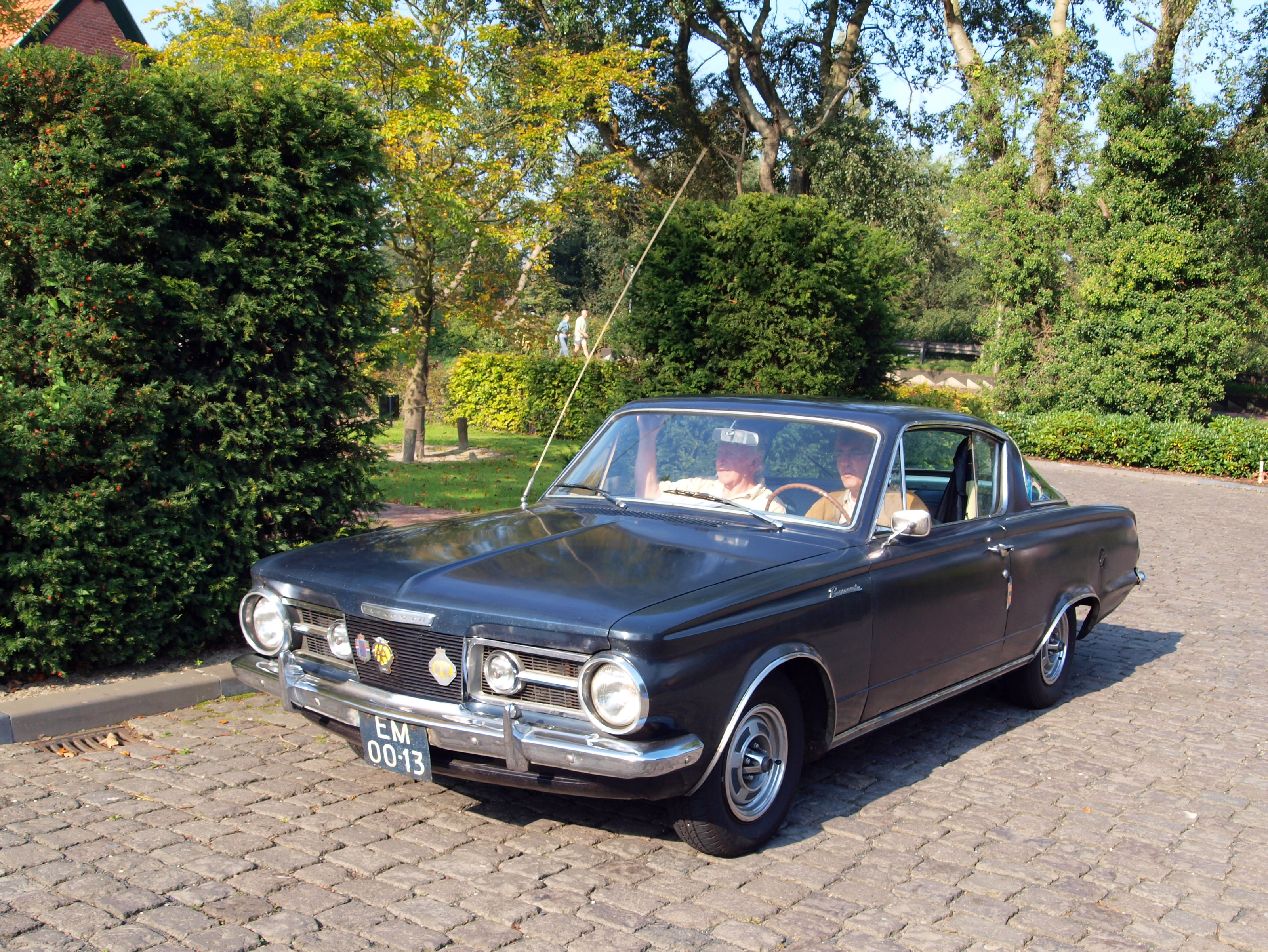 Plymouth Barracuda, photographed at the premises of the Louwman museum, The Hague, The Netherlands. OLYMPUS DIGITAL CAMERA